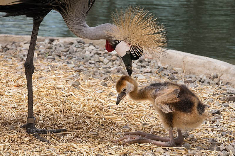 Birthday of a grey crowned crane chick in Tehran Birds Garden.